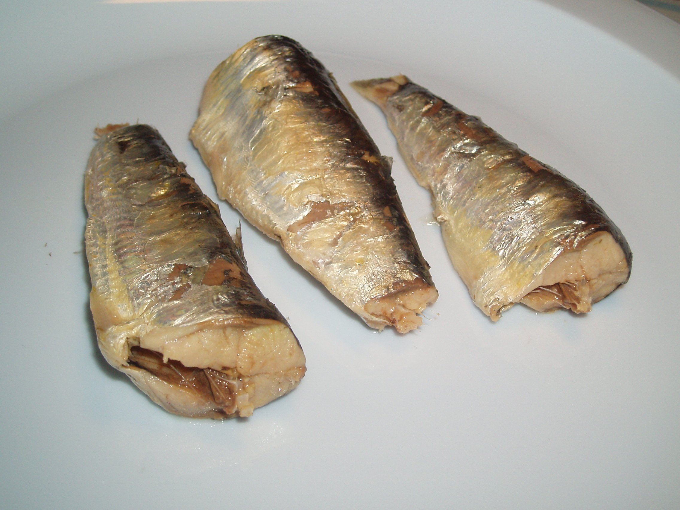 Canned sardines in salt water